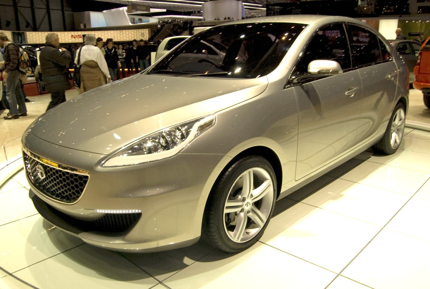 Jaguar